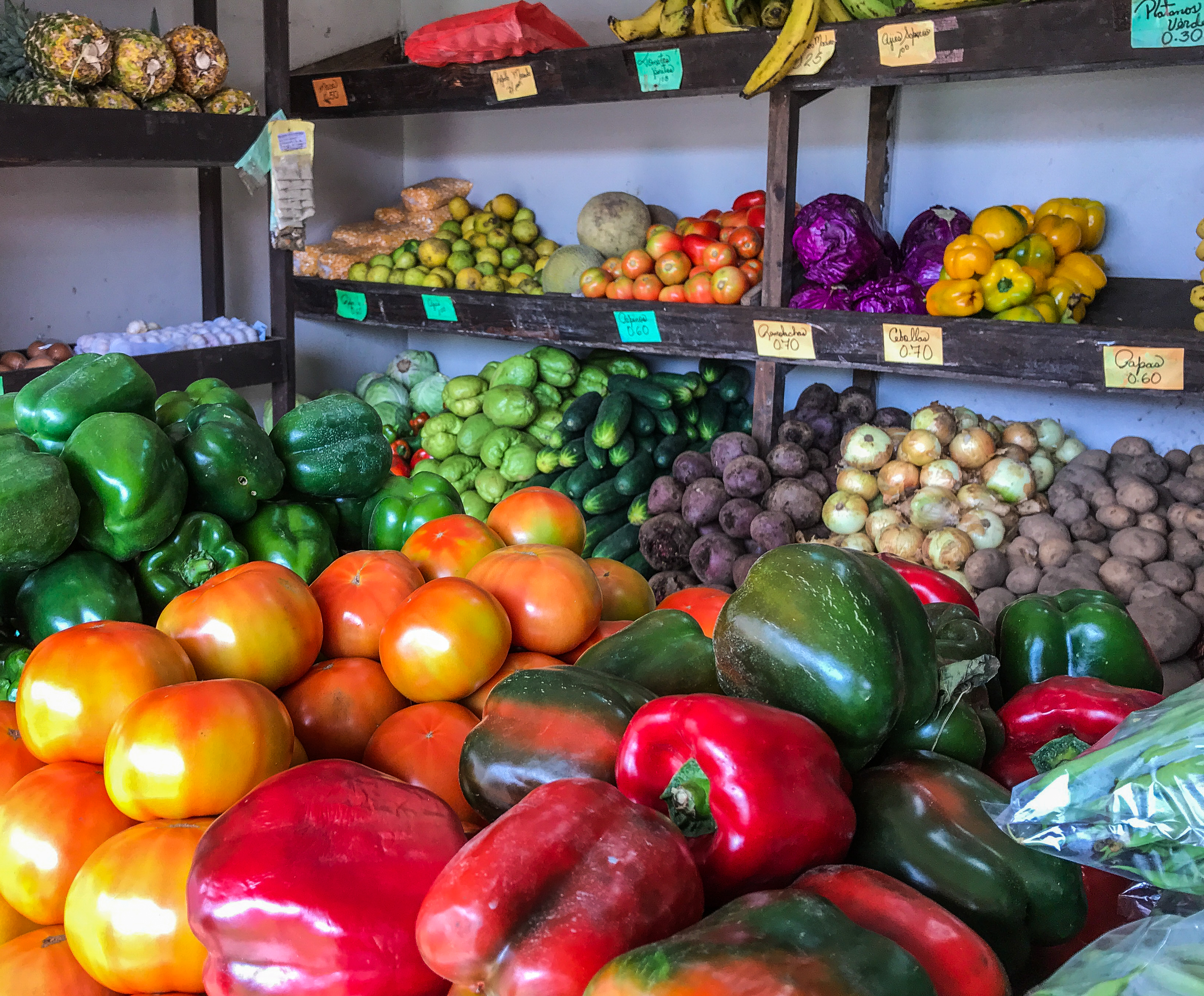 Produce displayed in the public market in Boquete, Panama